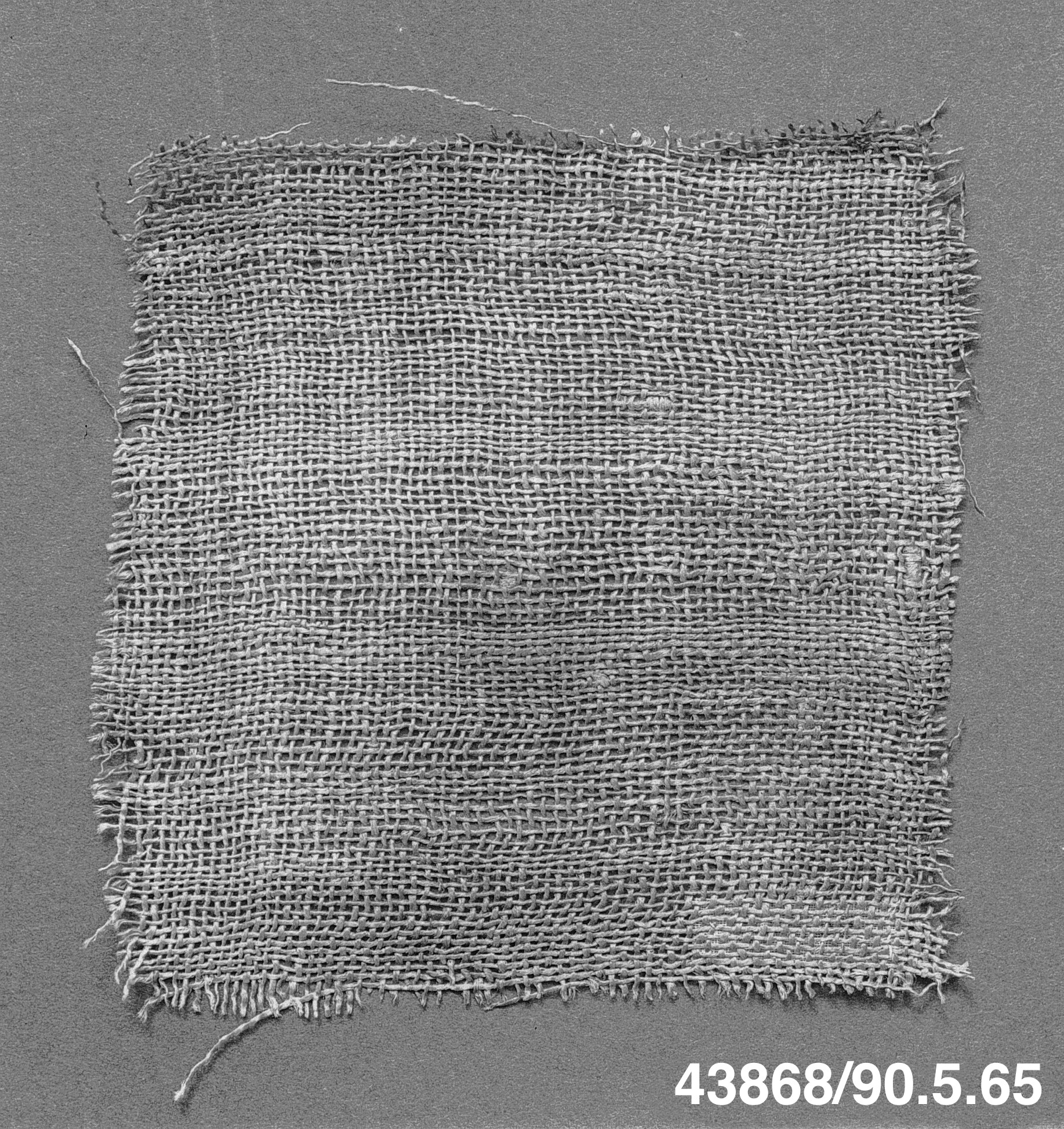 Mummy Cloth Fragment, Ramesses III